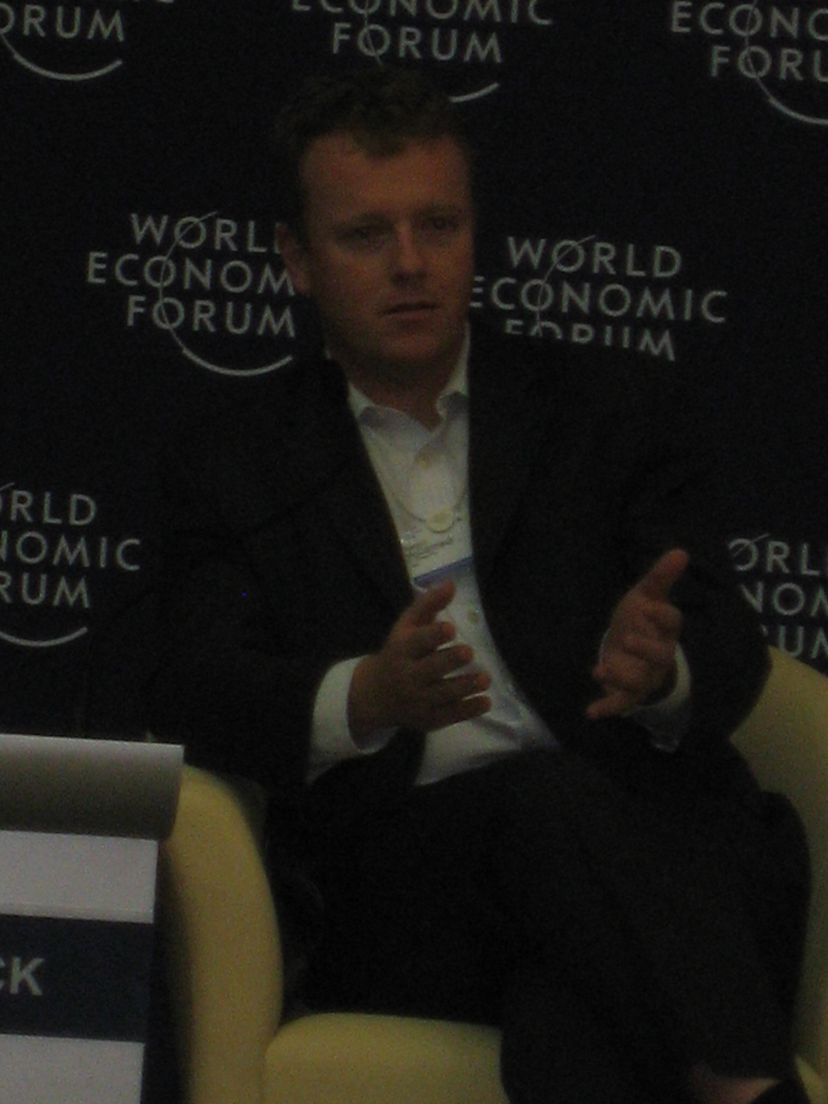 Aaron McCormack speaking at the WEF event